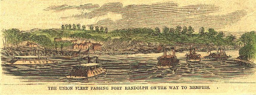 Engraving of Union gunboats passing Fort Randolphfrom the Tennessee State Library and Archives collection URL: Original date: 1865 Original title: Union fleet passing Fort Randolph on the way to Memphis Historical note: No fighting ever took place at Ft. Randolph; it was eventually occupied by Union forces under Gen. Philip Sheridan.